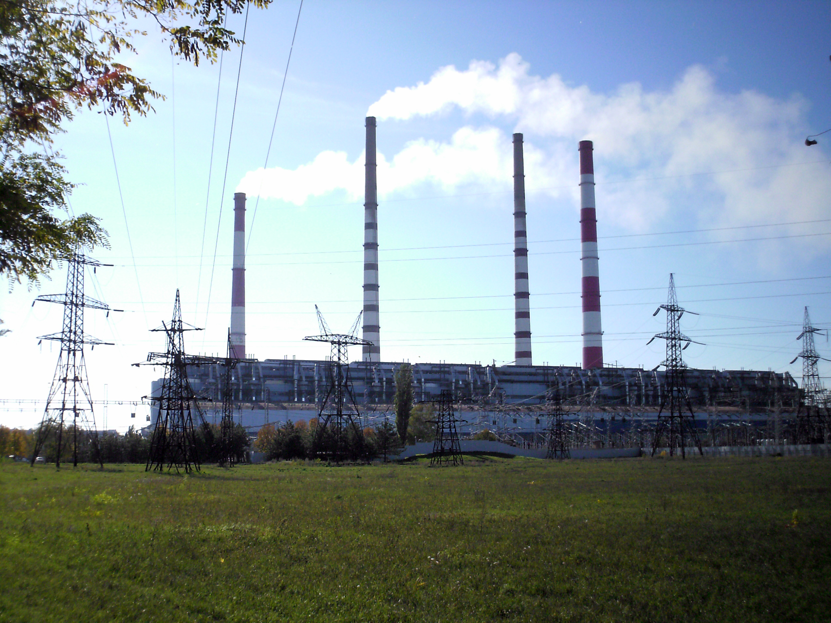 Novocherkassk Power Plant, Oblast Rostov, Russia